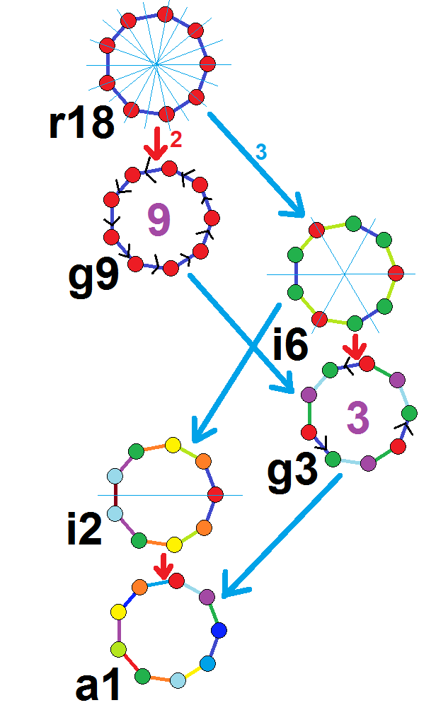 Symmetries of a regular enneagon, with markups Reworked from "The Symmetries of Things", Chapter 20 The regular enneagon has Dih9 dihedral symmetry, order 18, and 5 lower dihedral and cyclic symmetries. The dihedral symmetries pass through vertices and edges. Cyclic symmetries in the middle column are labeled as g for their central gyration orders.